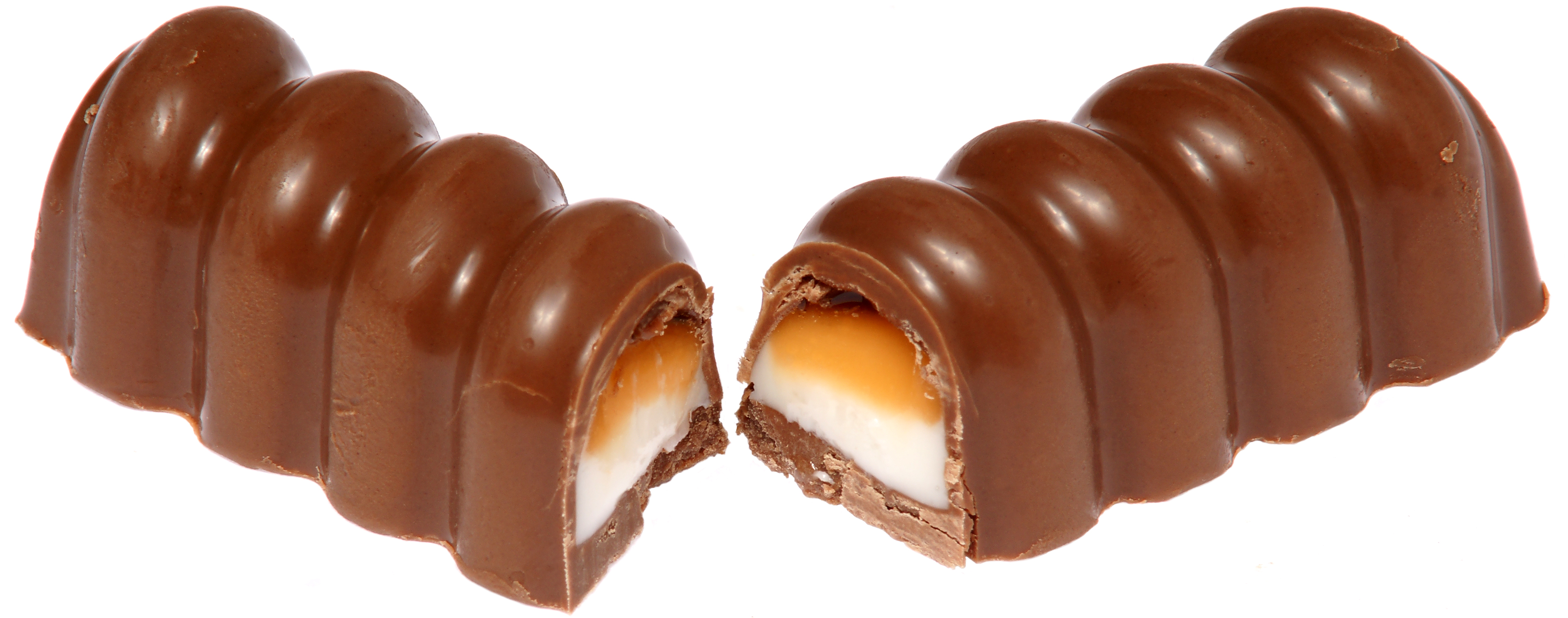 A Cadbury Creme Egg Twisted split in half.